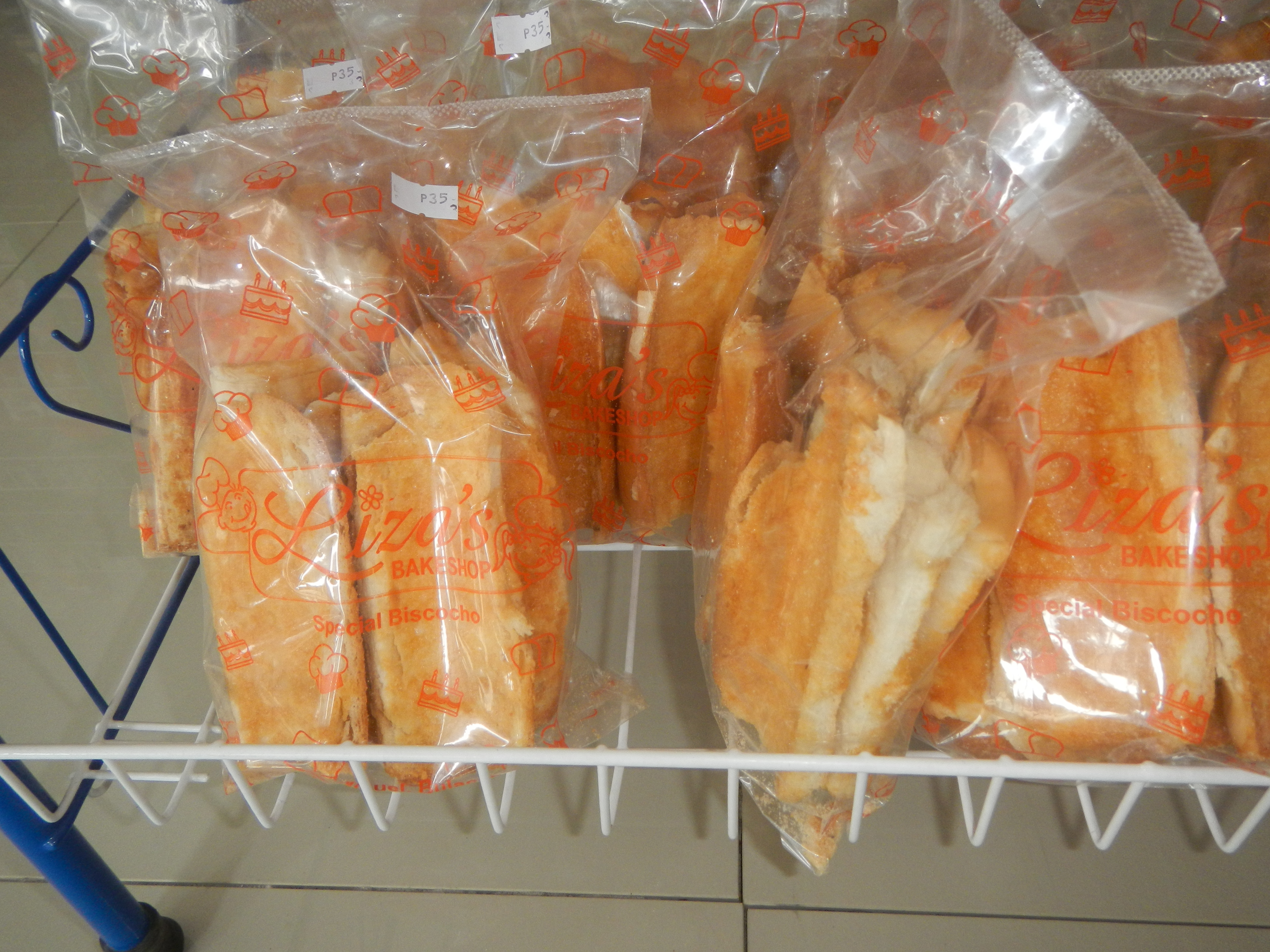 Cuisine foods delicacies of the Philippines; Pitsi-pitsî Pancit Malabaon Kenny Rogers Roasters Fried chicken in the Philippine Pastillas Biskotso Broas taken at Pagala, Baliuag, Bulacan 14°58'11"N 120°53'41"E (Note: Judge Florentino Floro, the owner, to repeat, Donor Florentino Floro of all these photos hereby donate gratuitously, freely and unconditionally all these photos to and for Wikimedia Commons, exclusively, for public use of the public domain, and again without any condition whatsoever).